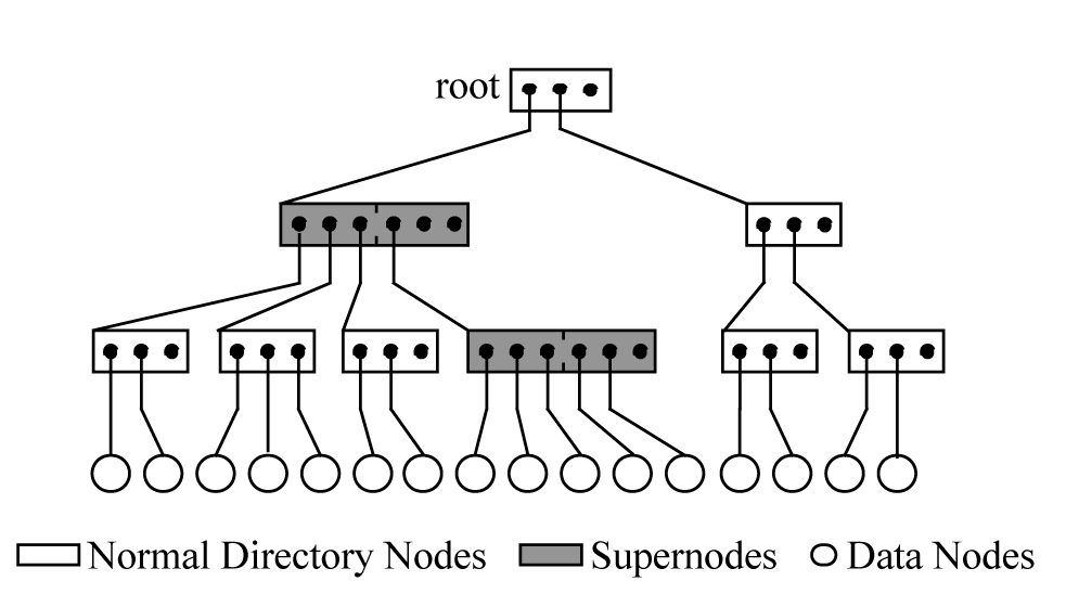 structure of the x-tree